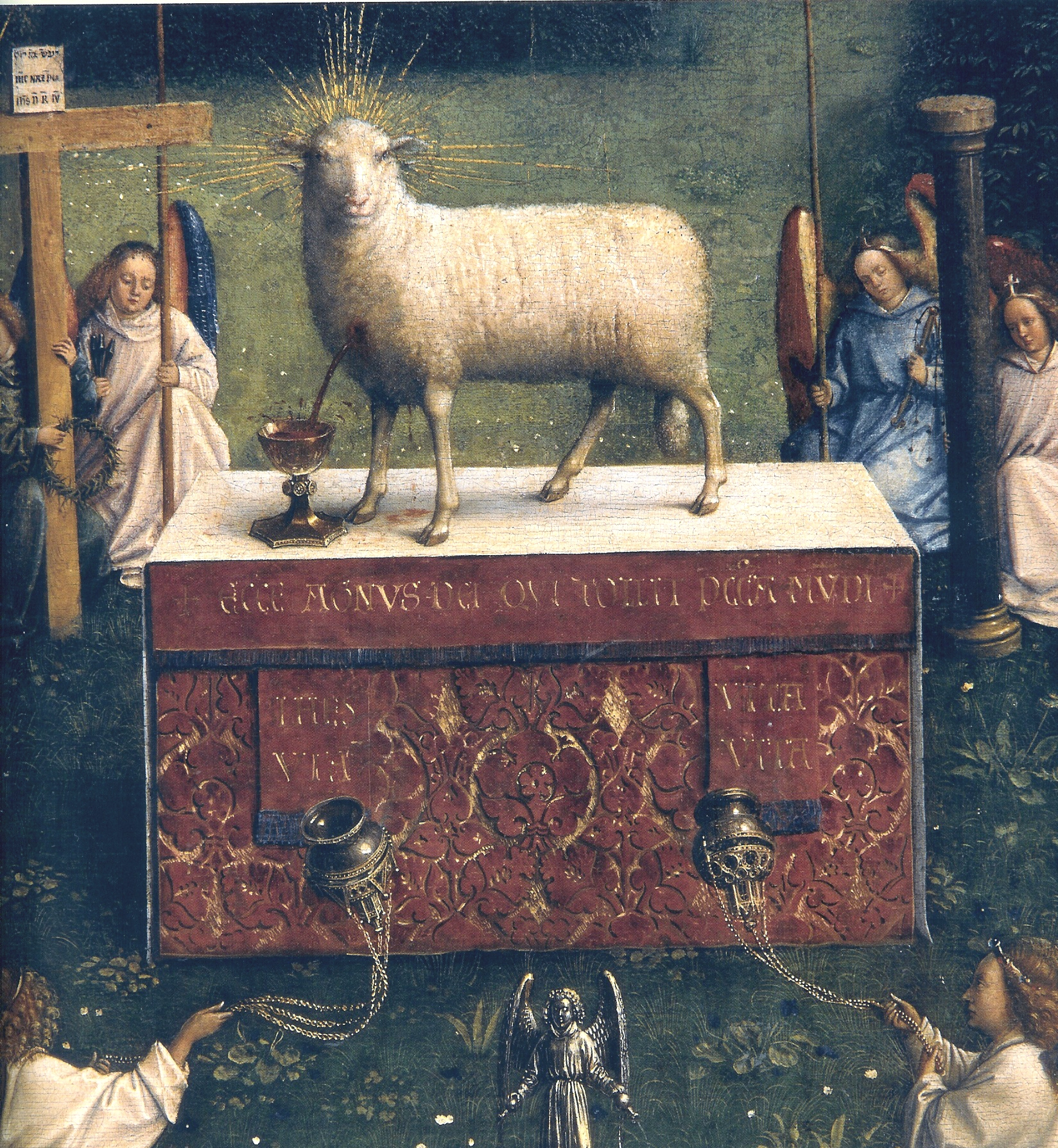 detail: the lamb